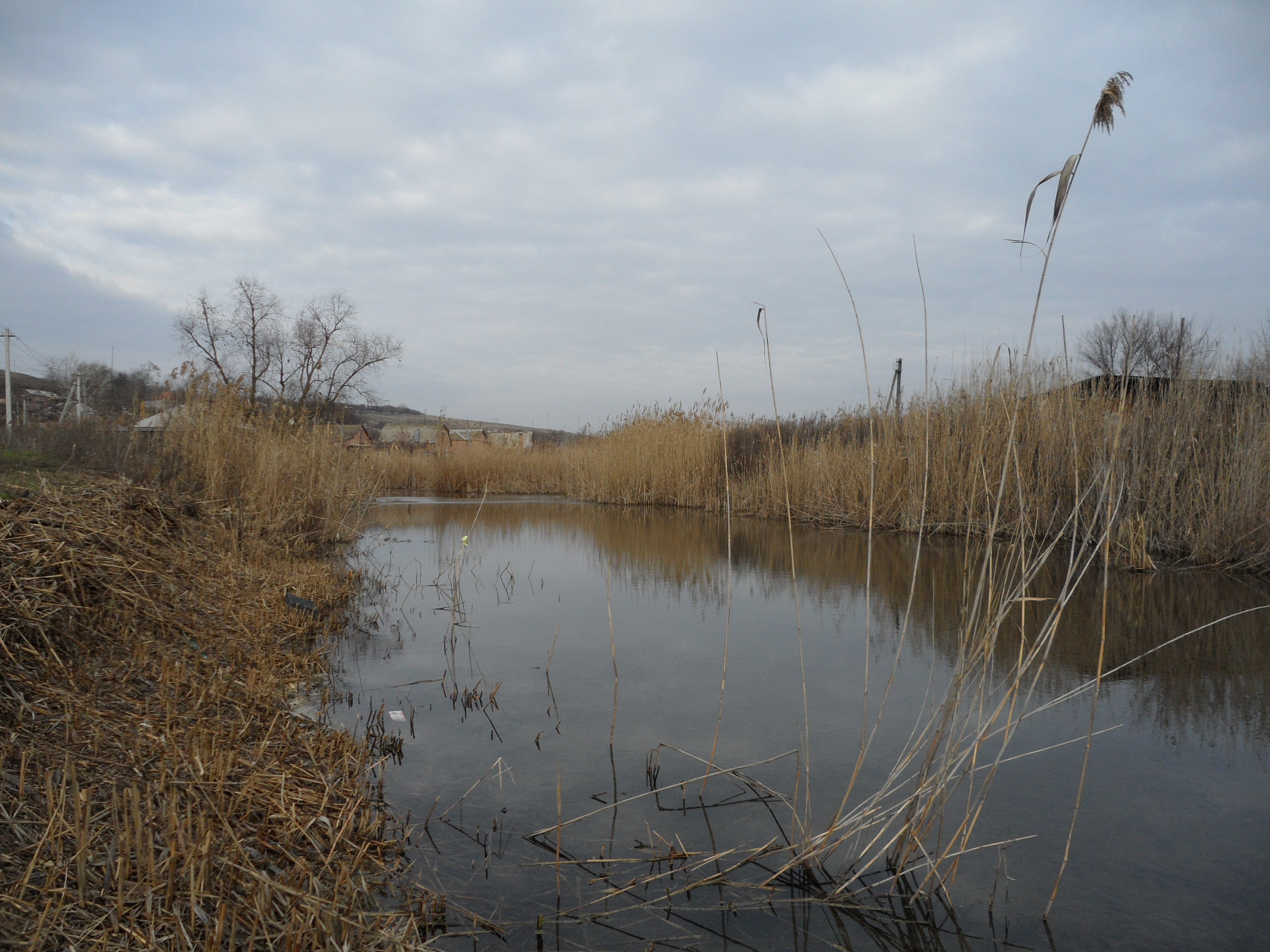 Bolshoy Log River in Bolshoy Log.